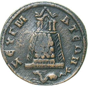 Otacilia Severa, wife of Philip the Arab. Æ 28. Side II: Temple at the end of a walled grove shown in elongated view; capricorn below.